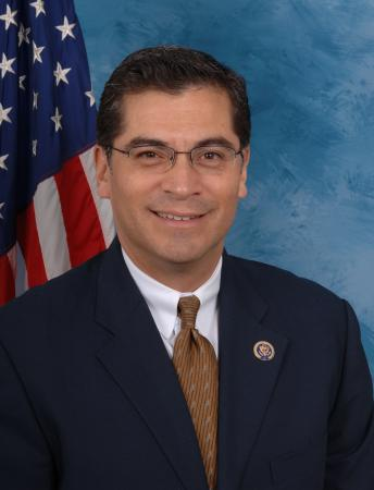 Official portrait of Congressman Xavier Becerra